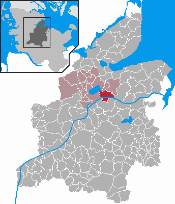 Locator maps of municipalities in Schleswig-Holstein - District Rendsburg-Eckernförde